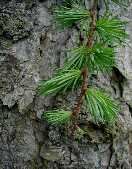 Larix kaempferi: Bark, twig and needles.